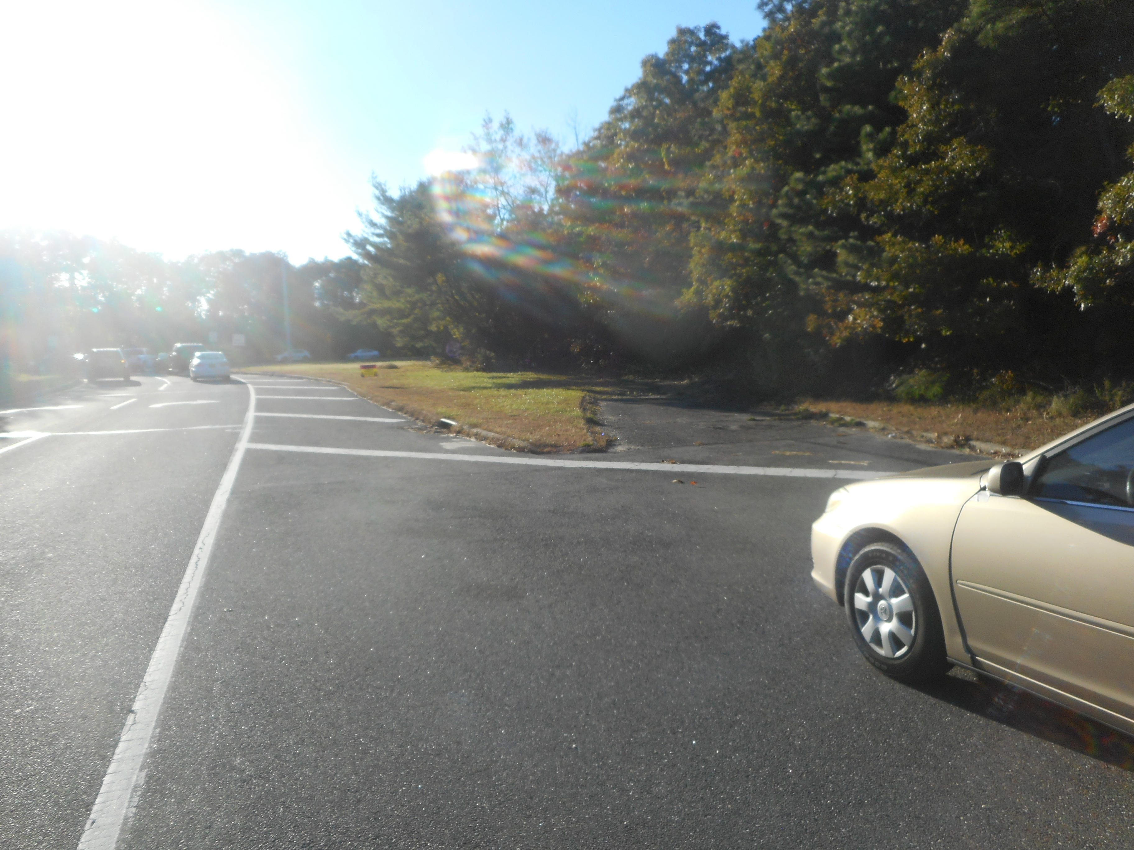 Images related to the unbuilt off-ramp at the western terminus of Suffolk County Road 99 (Woodside Avenue) and Suffolk County Road 19 (Patchogue-Holbrook Road) in Holtsville, New York. Further details to come later.